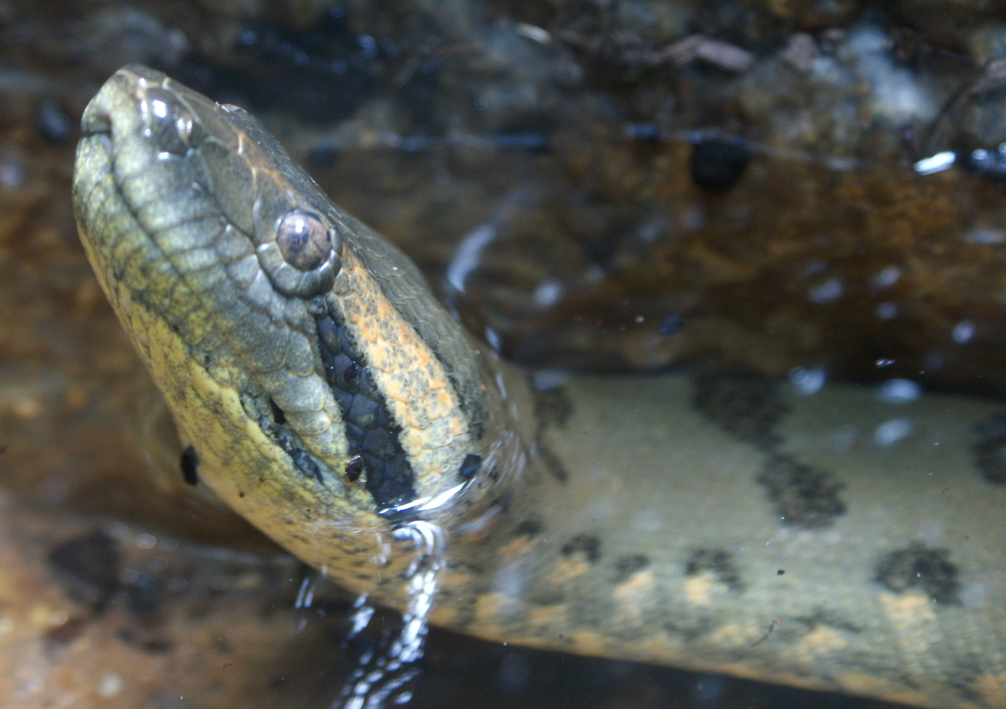 Green Anaconda (Eunectes murinus)